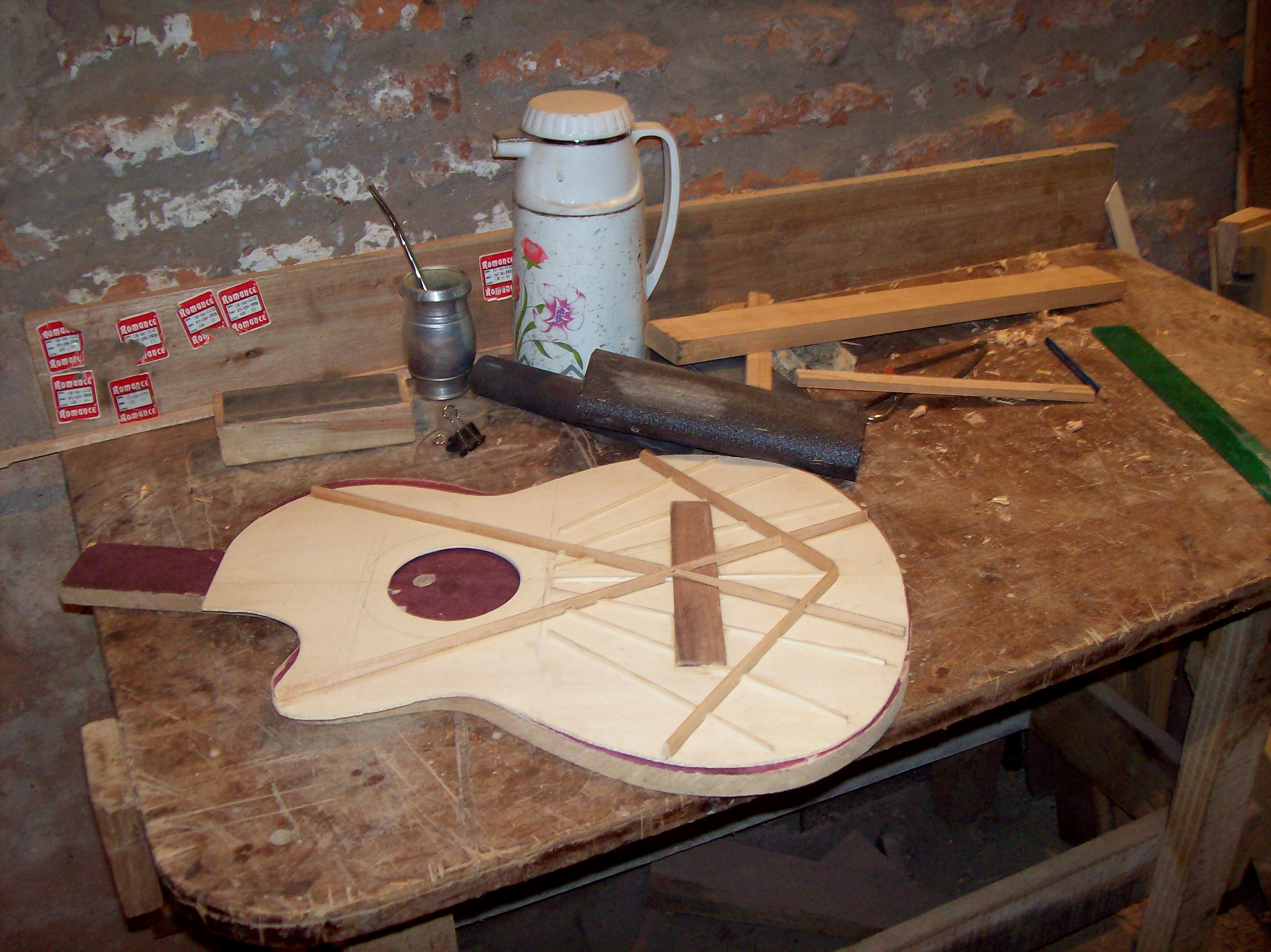 Manzana de las Luces, in "Barrio de Monserrat", Buenos Aires, near Plaza de Mayo. Inside of the Luthiers' cooperative (Perú y Julio Argentino Roca)